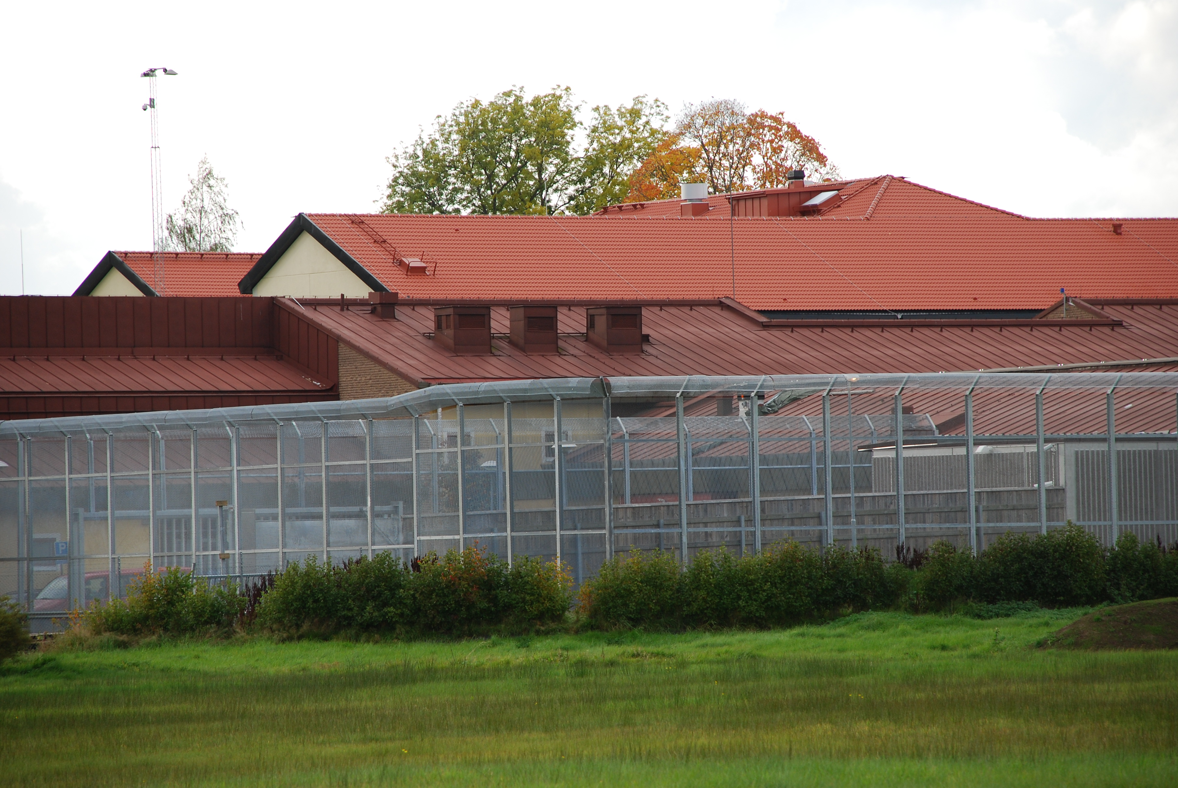 Fencing around Sankt Sigfrids hospital (forensic psychiatry) with new fences constructed 2008